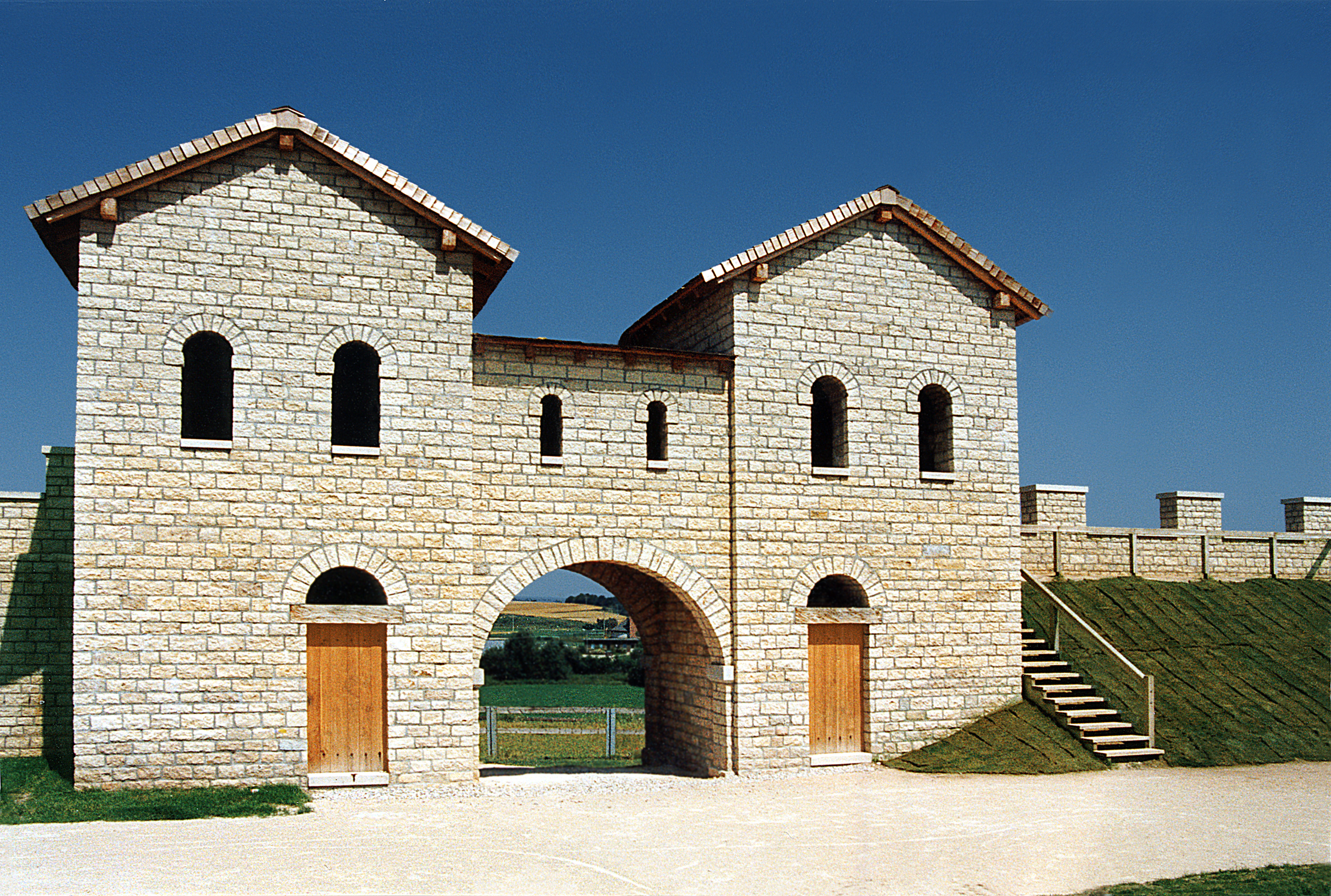 The 1990 reconstructed Porta decumana at the castle Weißenburg, Bavaria, Germany.